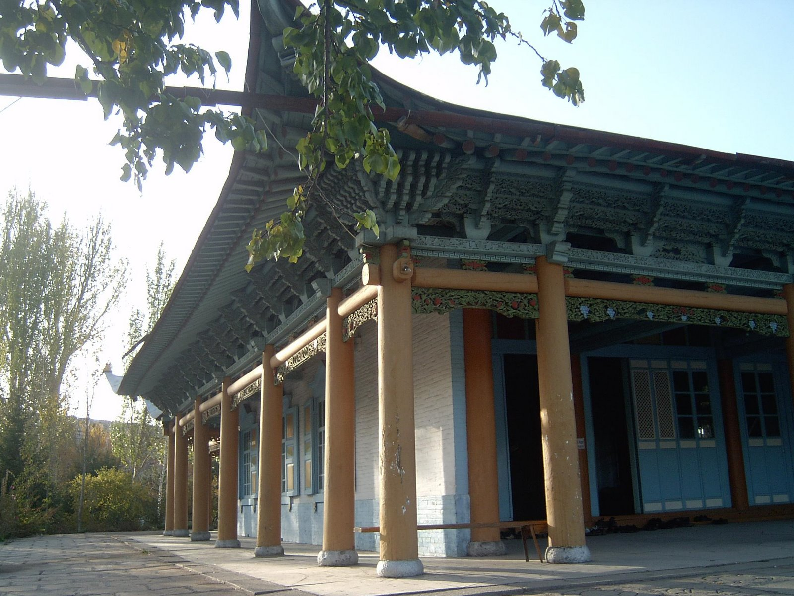 The exterior of the Dungan Mosque in Karakol, Kyrgyzstan